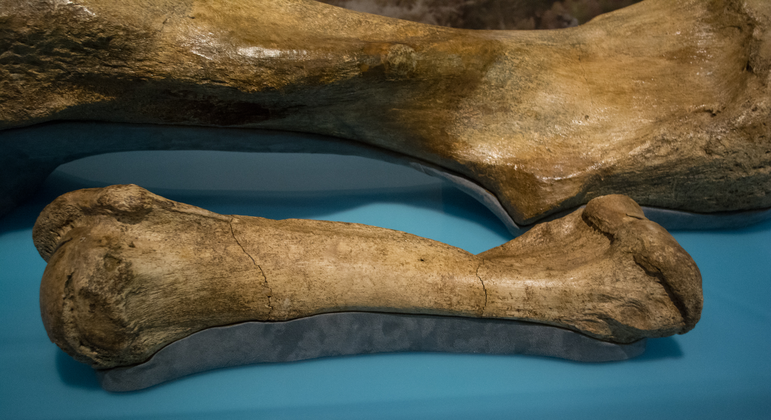 A leg bone (humerus) of a Pygmy Mammoth (Mammuthus exilis) next to the leg bone of a Columbian mammoth (Mammuthus columbi) at the Cleveland Museum of Natural History in Cleveland, Ohio.